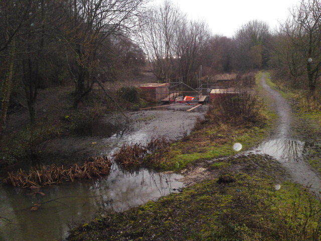 The Itchen navigation canal at Mansbridge This is the Itchen navigation canal at Mansbridge. This is part of the Itchen Way. At this point there is some lock restoration work going on.